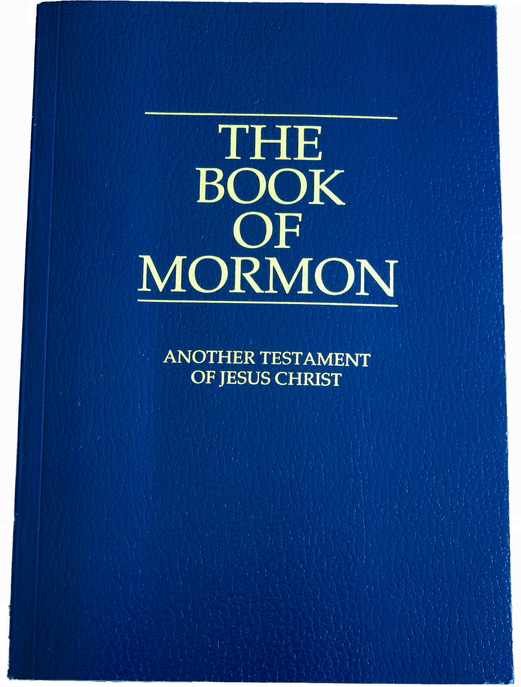 The Book of Mormon English Missionary Edition Soft Cover